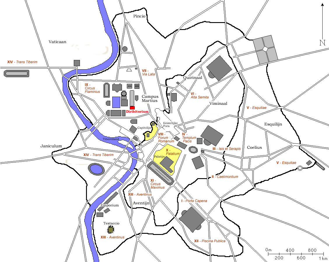 Location of the Diribitorium on a map of ancient Rome